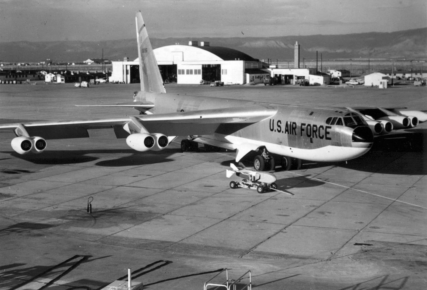 Boeing B-52D-40-BW (SN 56-0695) and GAM-72 Quail decoy missile and trailer